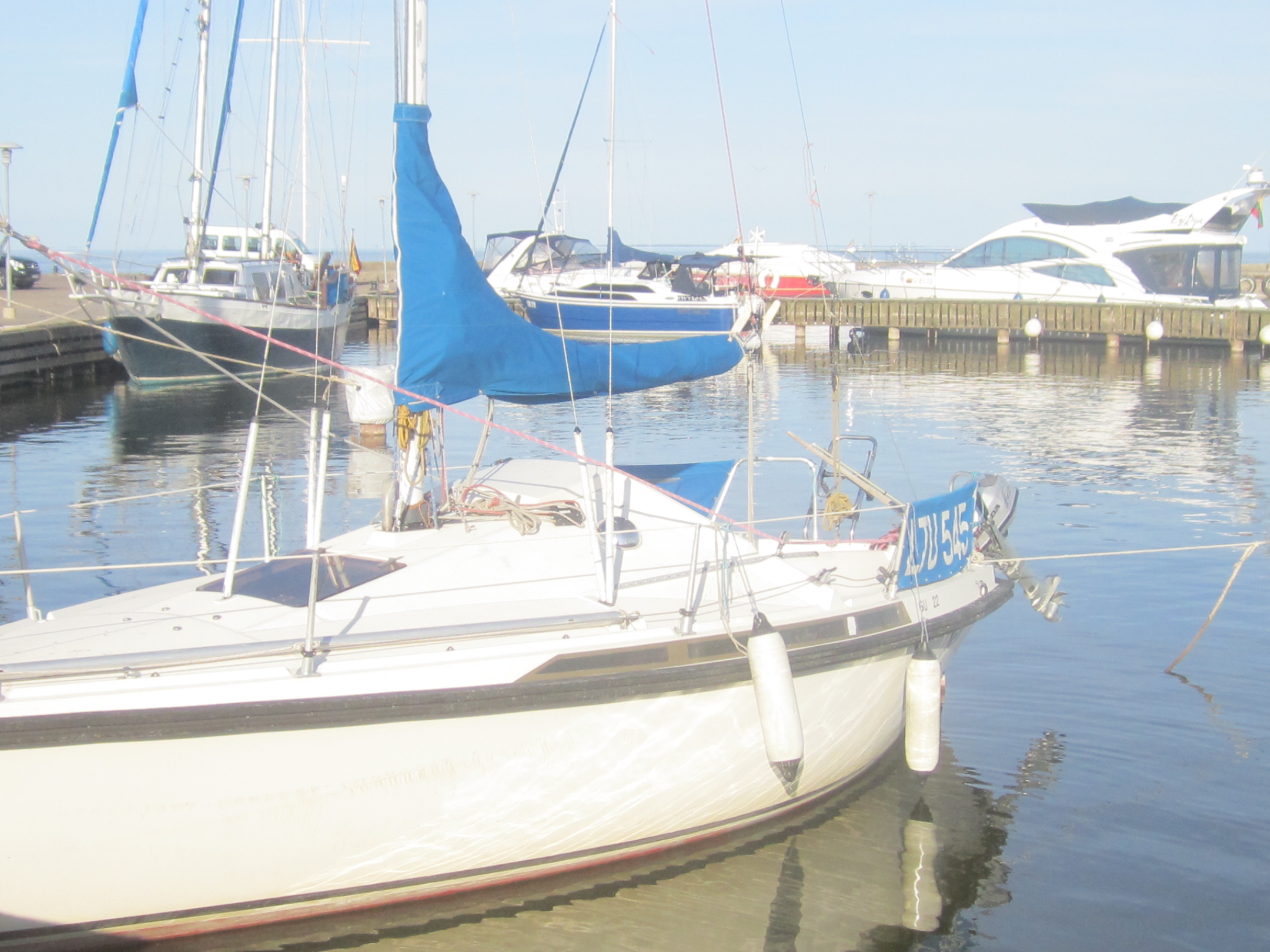 Nida yacht club